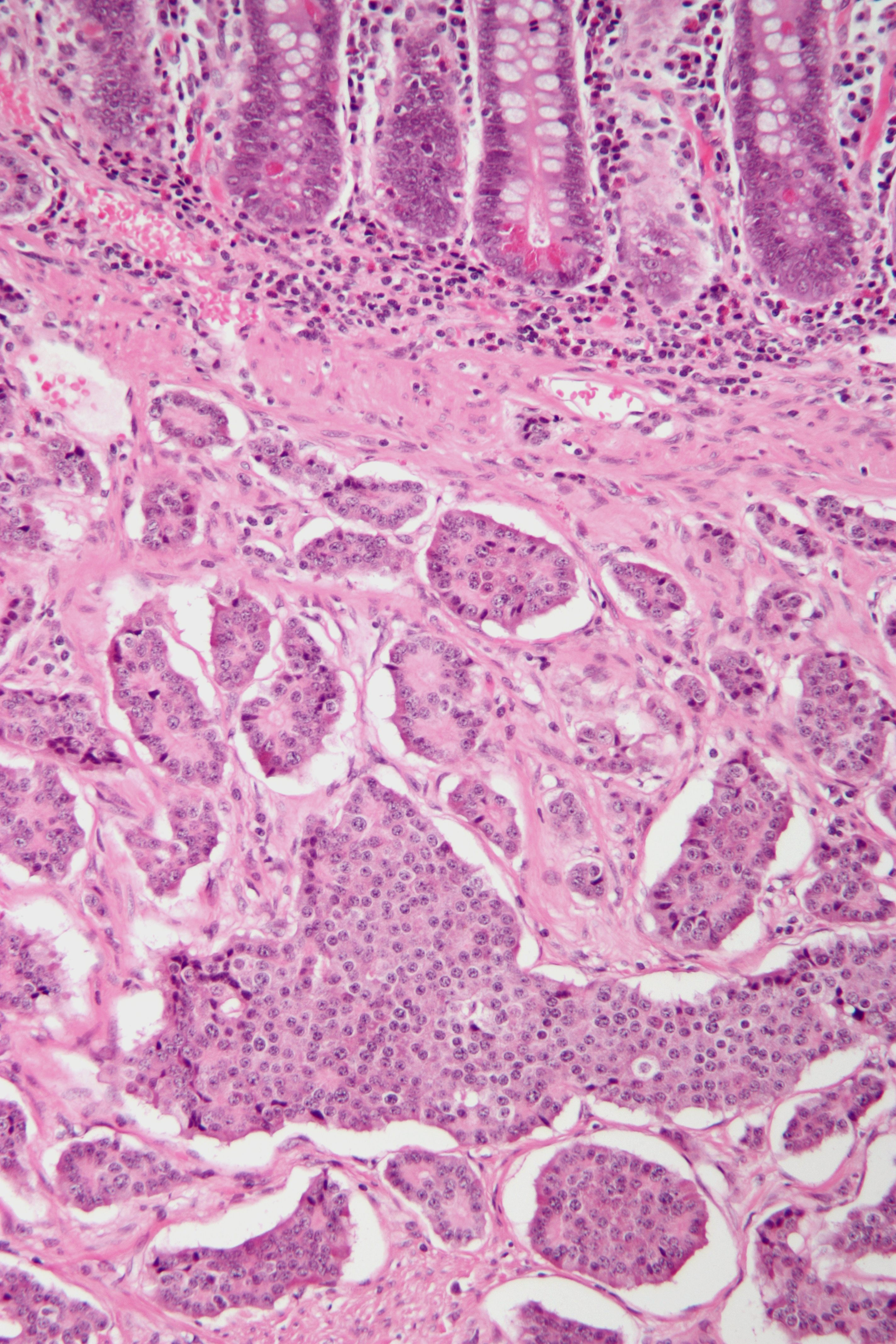 Intermediate magnification micrograph of a small intestine neuroendocrine tumour. H&E stain. Related images Low mag. Intermed. mag. High mag. High mag. (cropped)